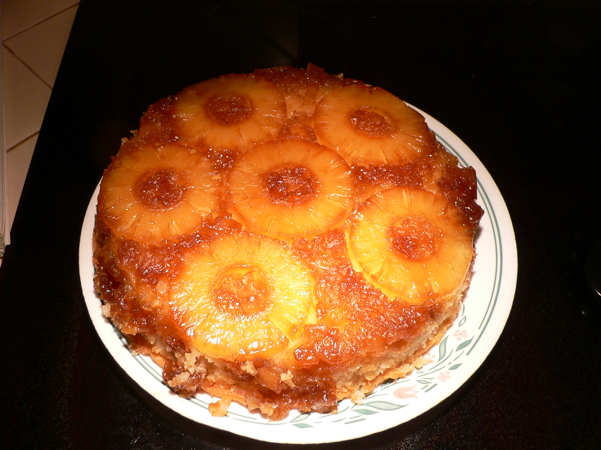 Pictures of me baking pineapple upside down